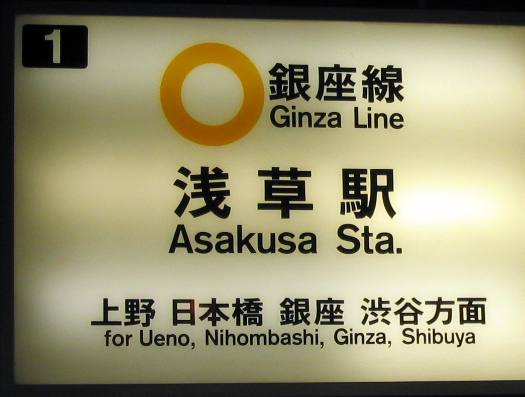 Camera Image of an Asakusa Station Sign.